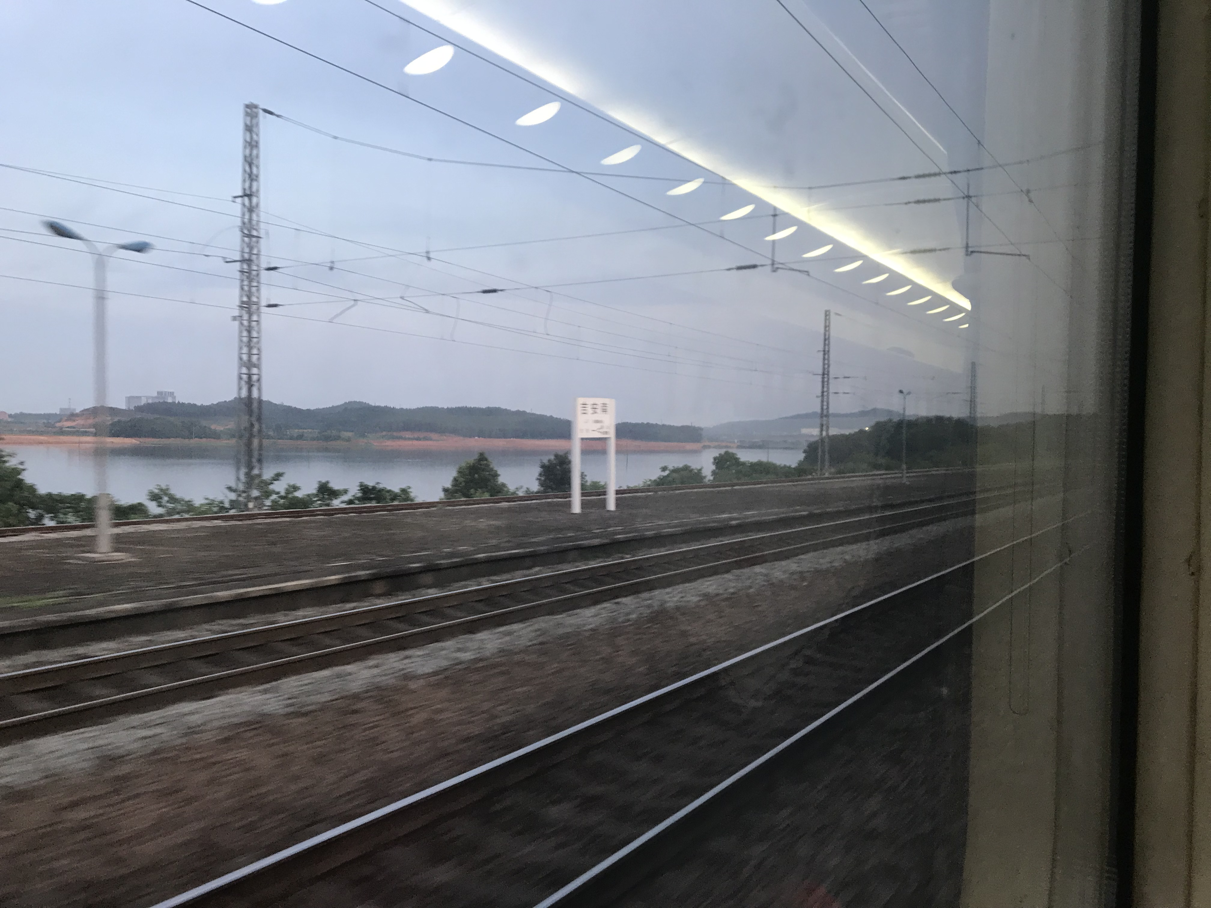 201906 Tracks of Ji'annan Station